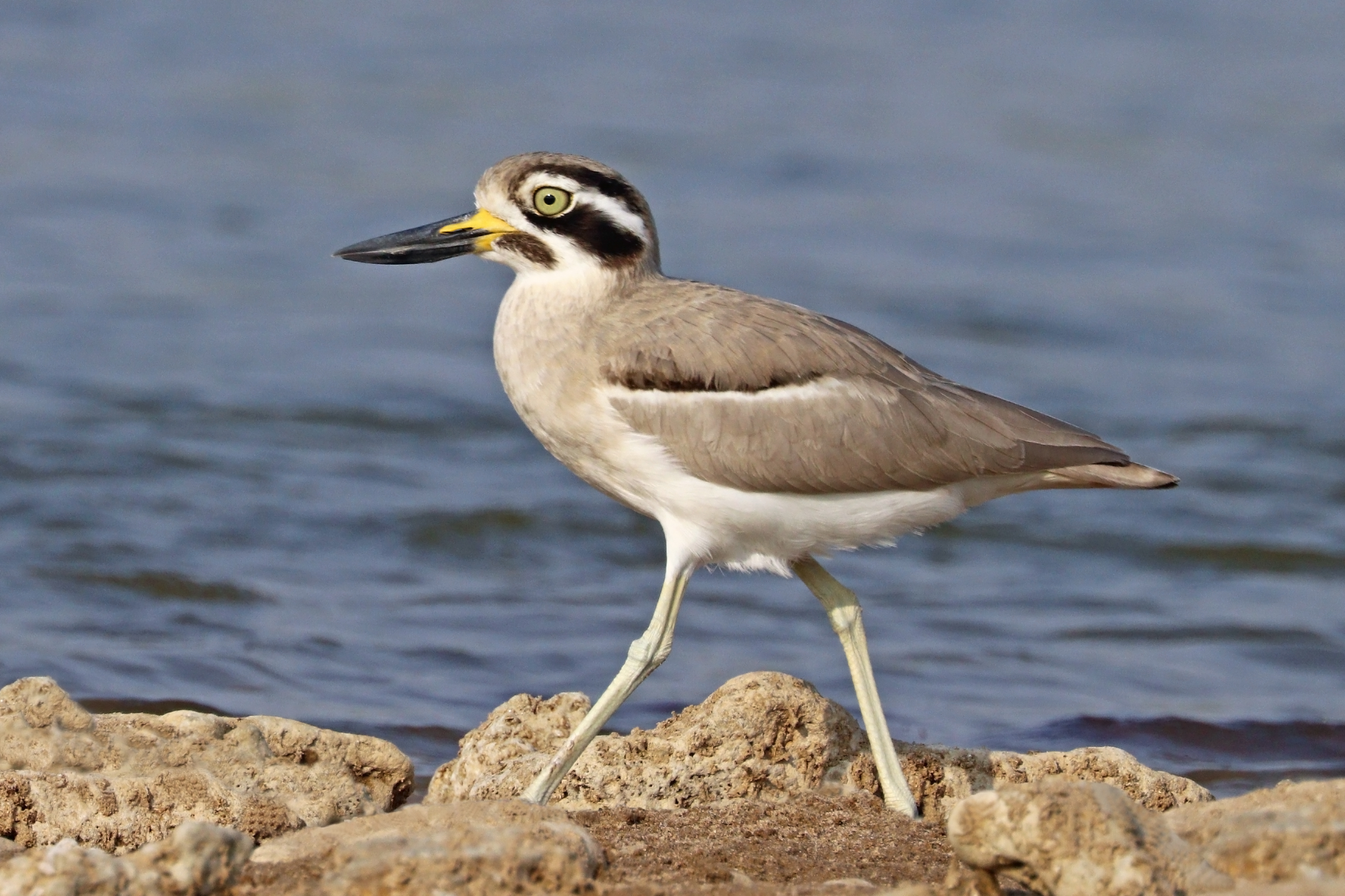 Great thick-knee (Esacus recurvirostris), Chambal River, UP, India